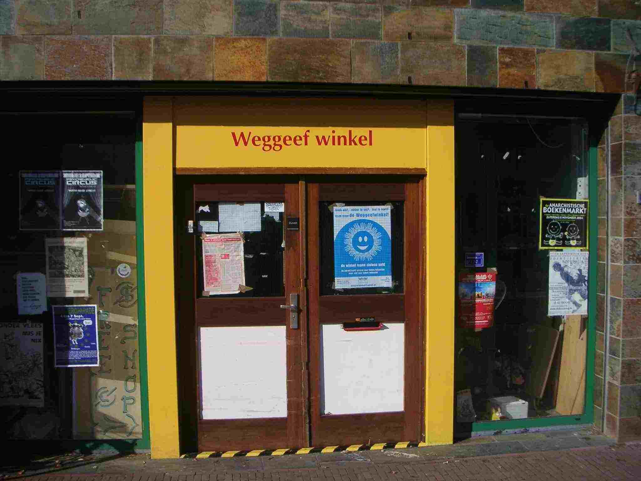 Give away shop in Utrecht, Holland